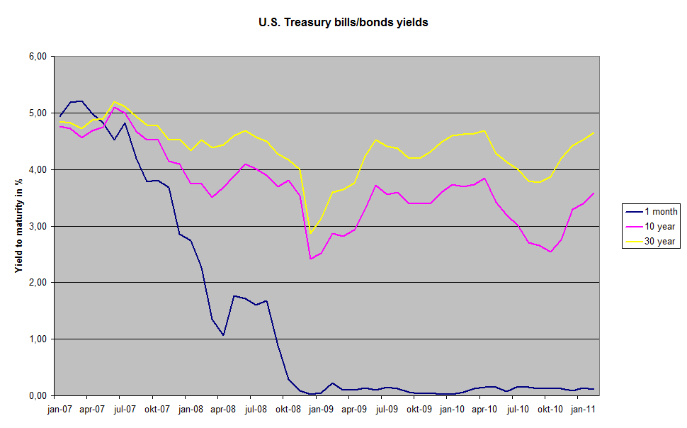 Yields on 1-mont, 10-year and 30-year US government debt. Bron: Federal Reserve Bank of St. Louis, Economic Research, series ID GS1M, GS10 and GS30.